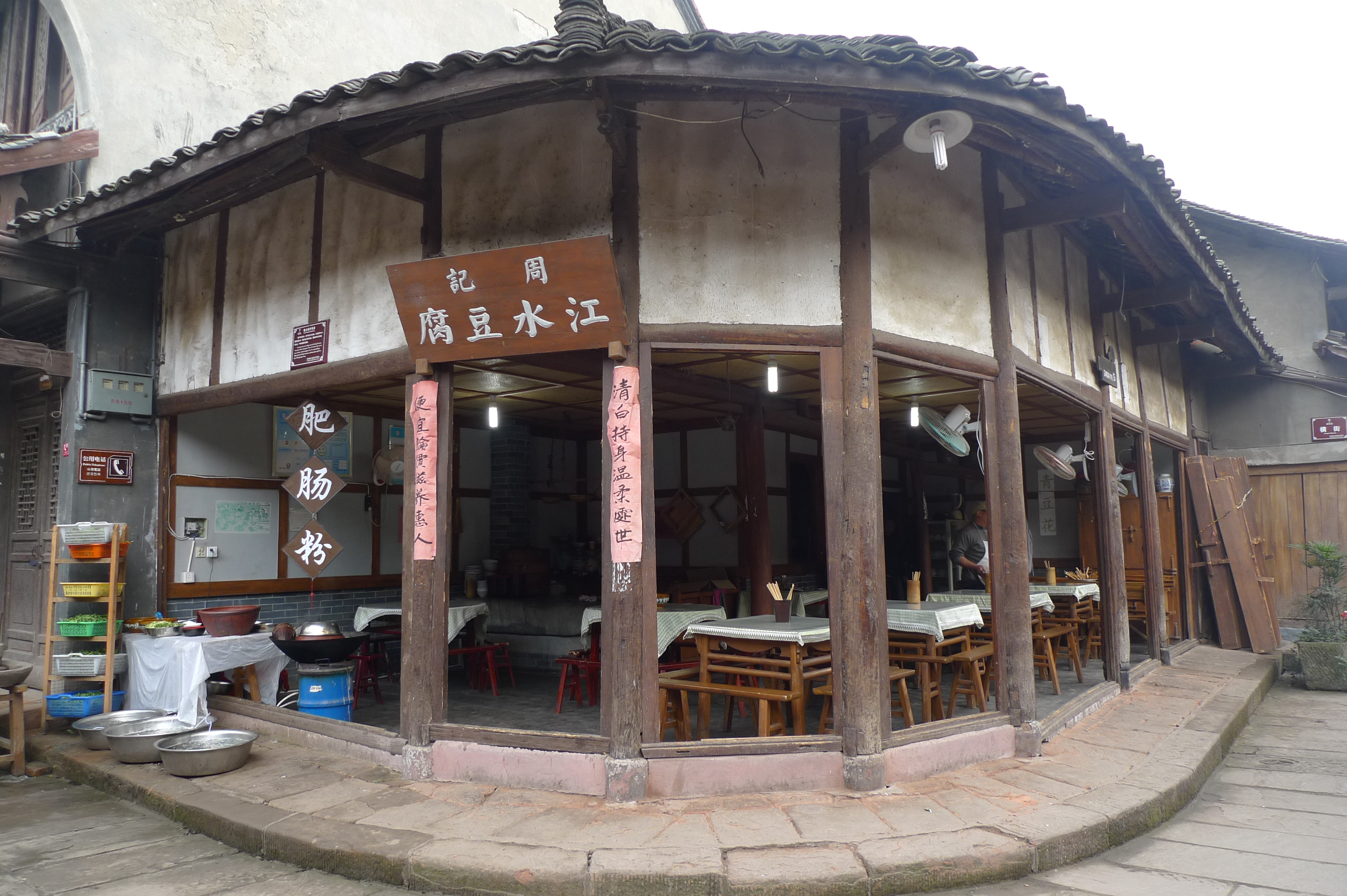 huanglongxi3